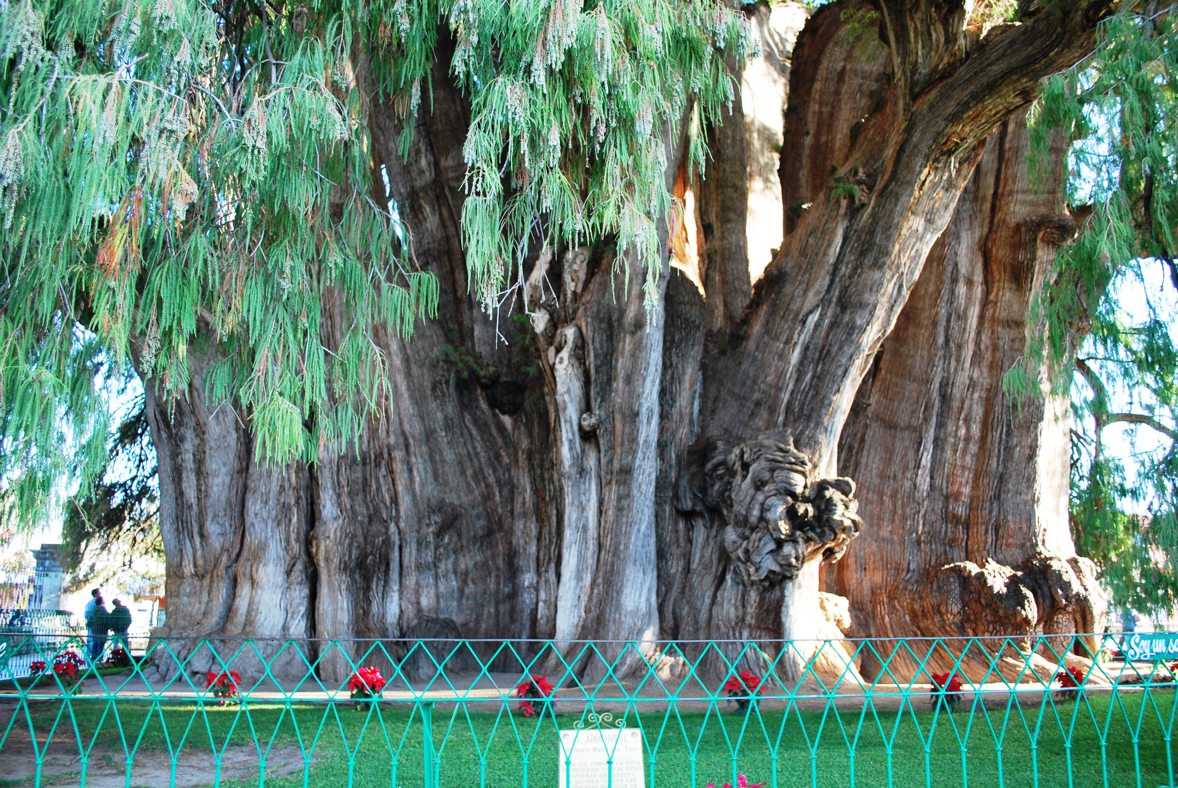 Trunk of the 2000 year old Tule Tree in Santa Maria del Tule, Oaxaca, Mexico